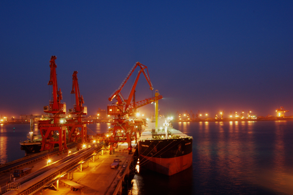 rizhao sea port